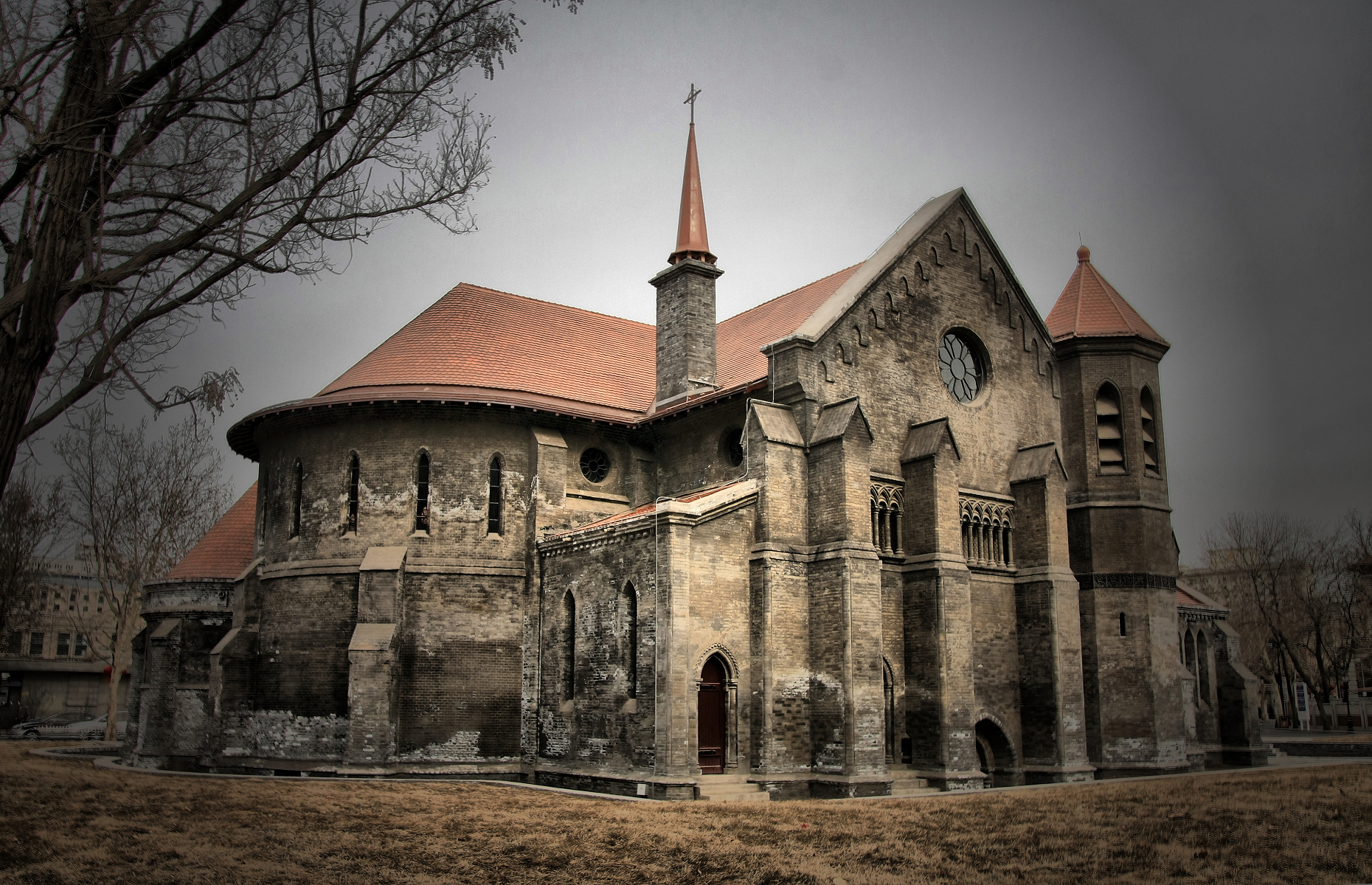 Episcopal Church in Zhejiang Lu No. 2, Heping District, Tianjin